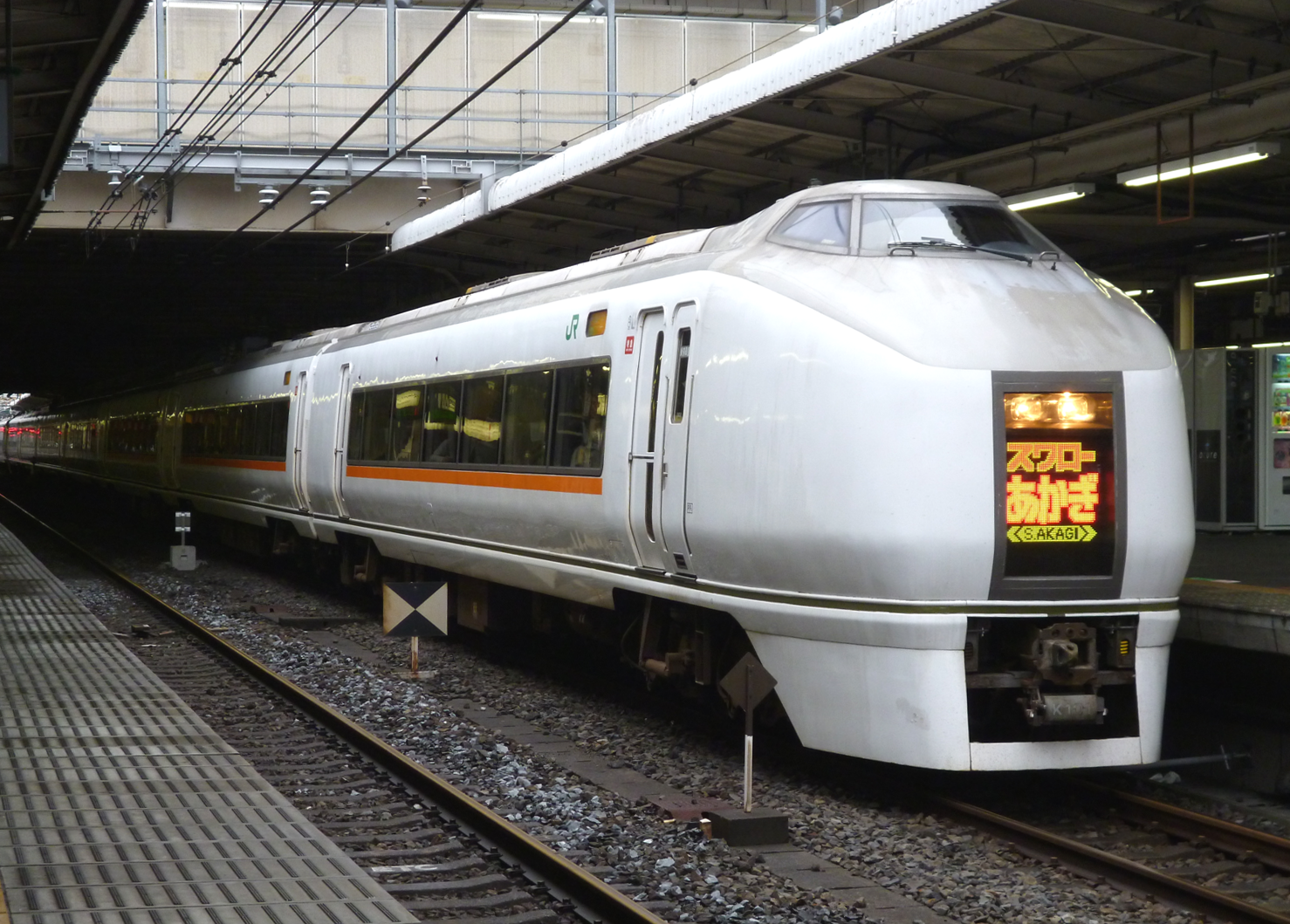 A JR East 651-1000 series EMU at Omiya Station on the Swallow Akagi 4 service